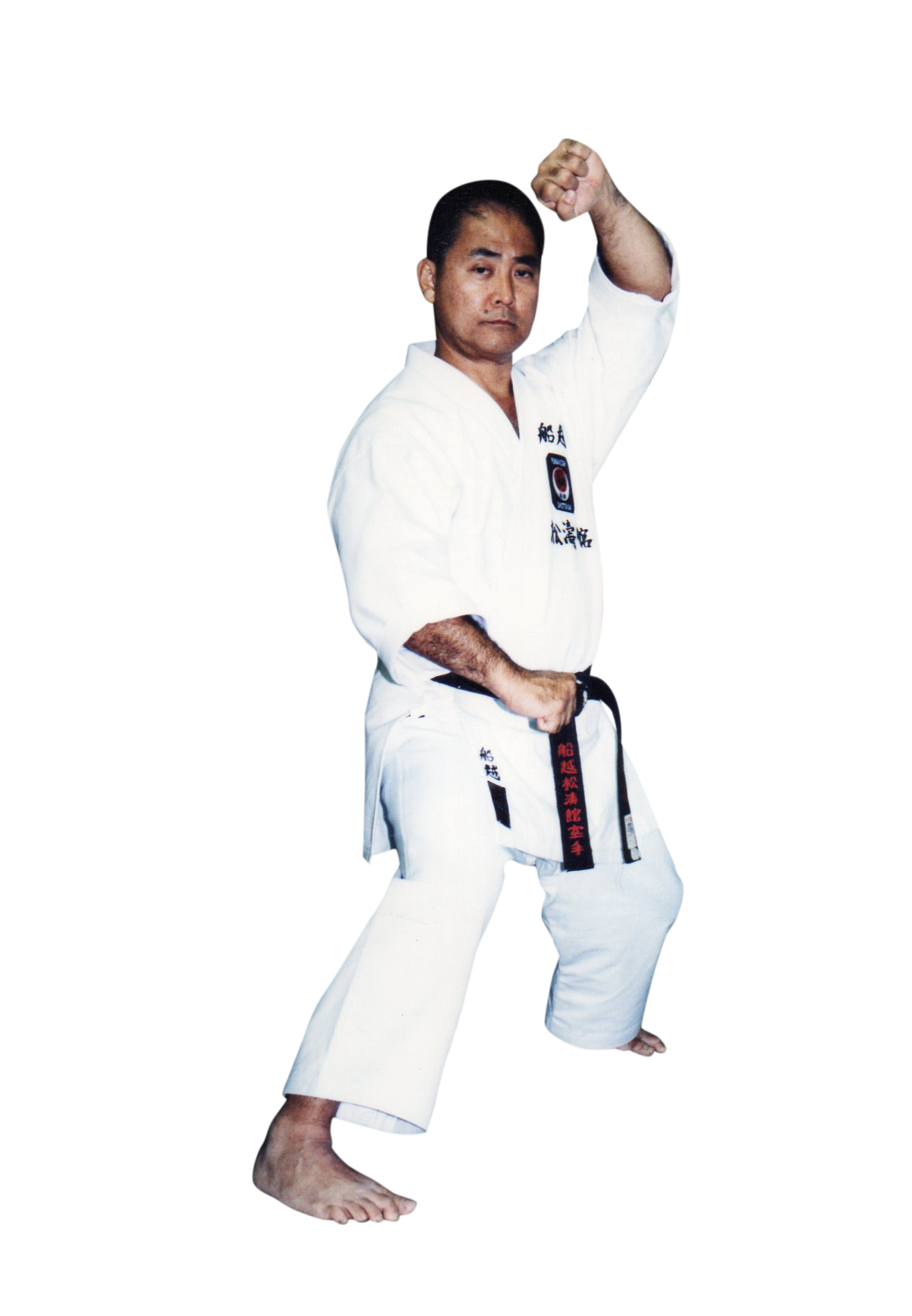 Shihan Kenneth Yoshinobu Funakoshi